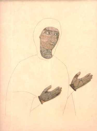 Khakhuli triptych, medieval artwork from Georgia. This is the reconstructed centre panel with only the face and hands of the Virgin Mary. See File:Khakhuli triptikh XIX.jpg.